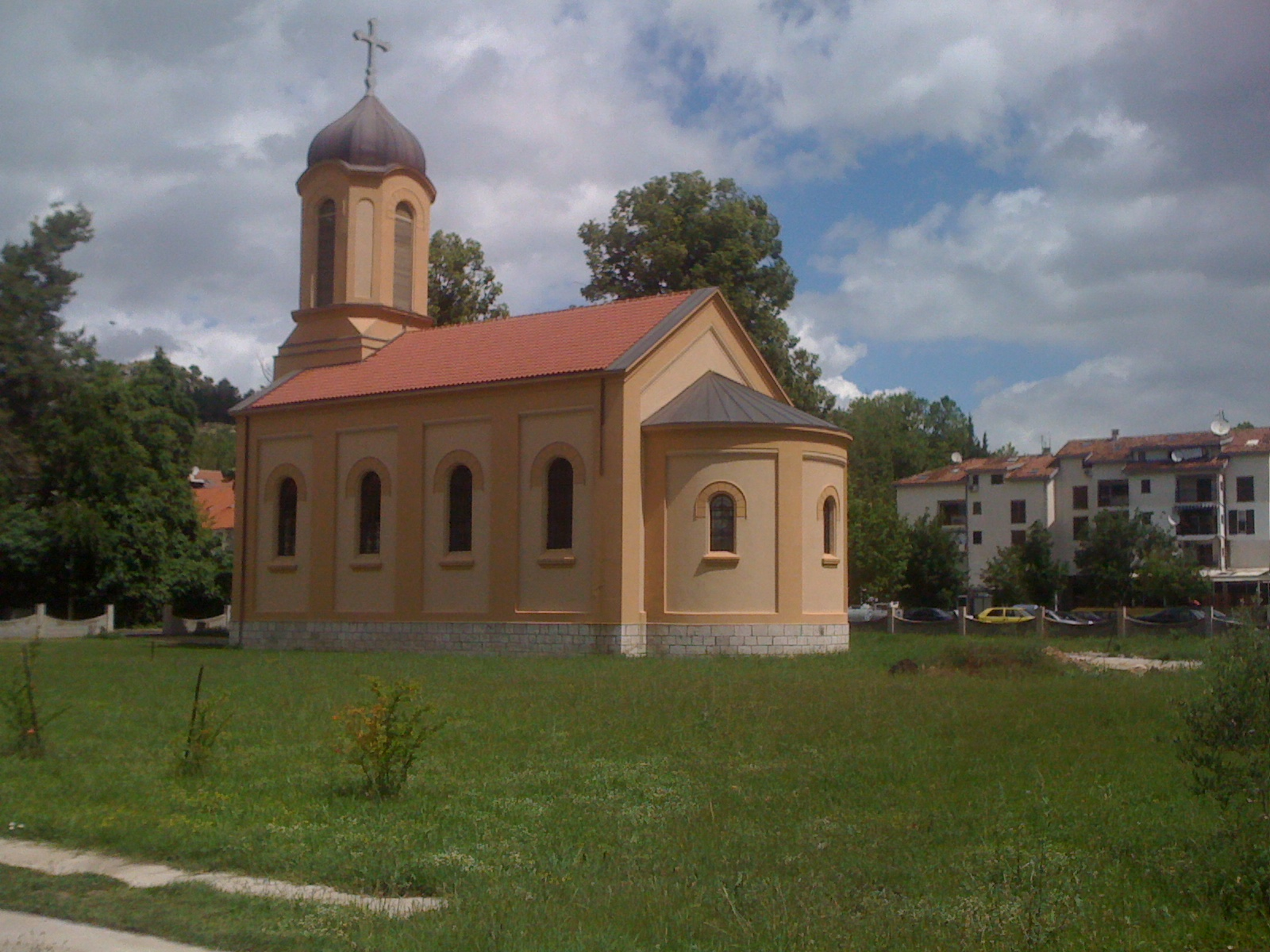 Ascension of Jesus Orthodox church in Čapljina